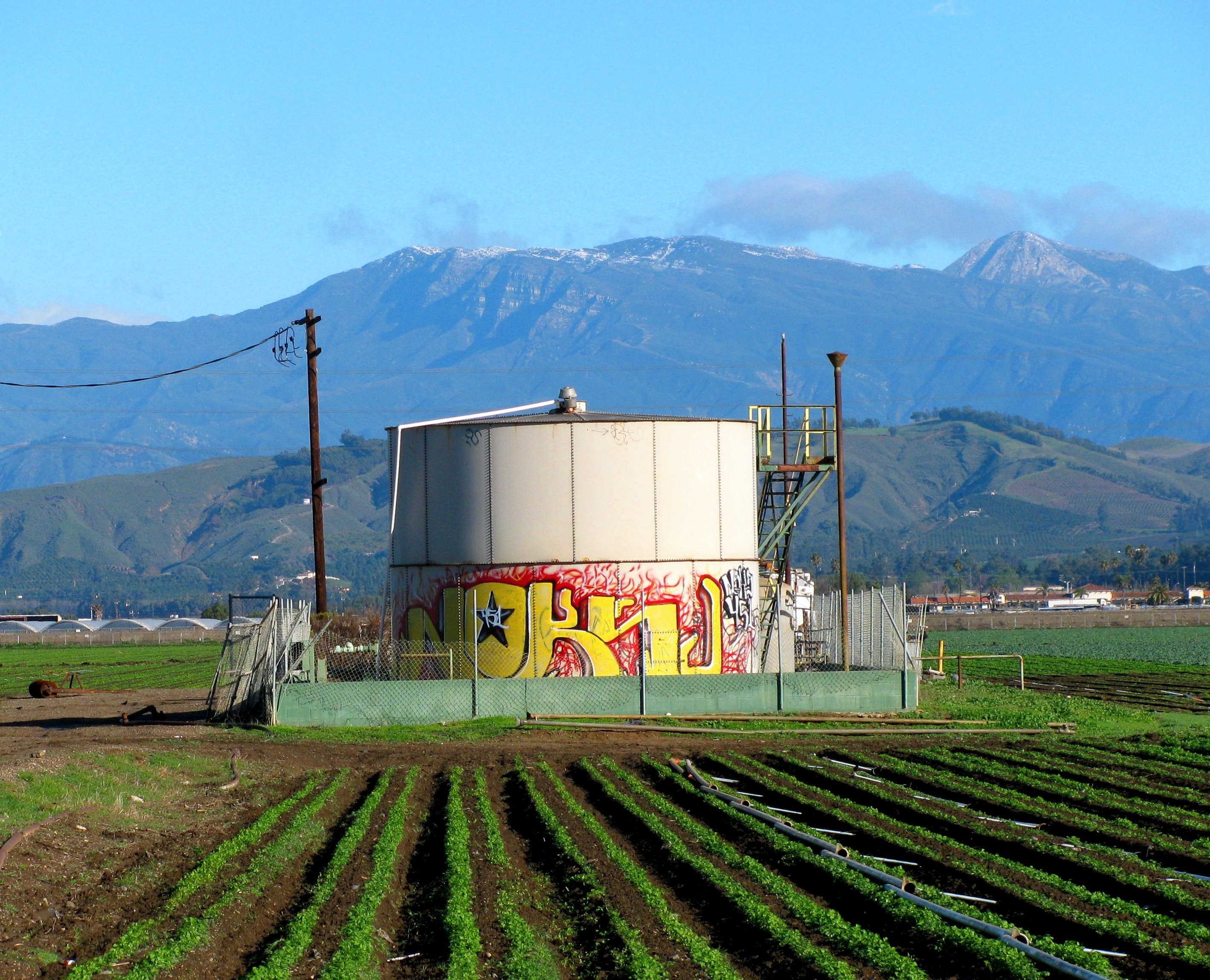 Oil storage tank on Oxnard field, decorated by low-budget freelance artist, moonlighting. Photo by self, GFDL/equiv.